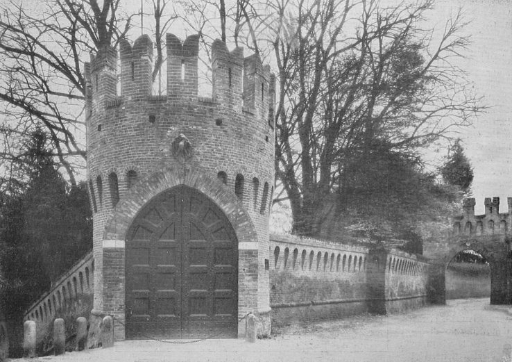 Castello Trecchi (Maleo) Italia